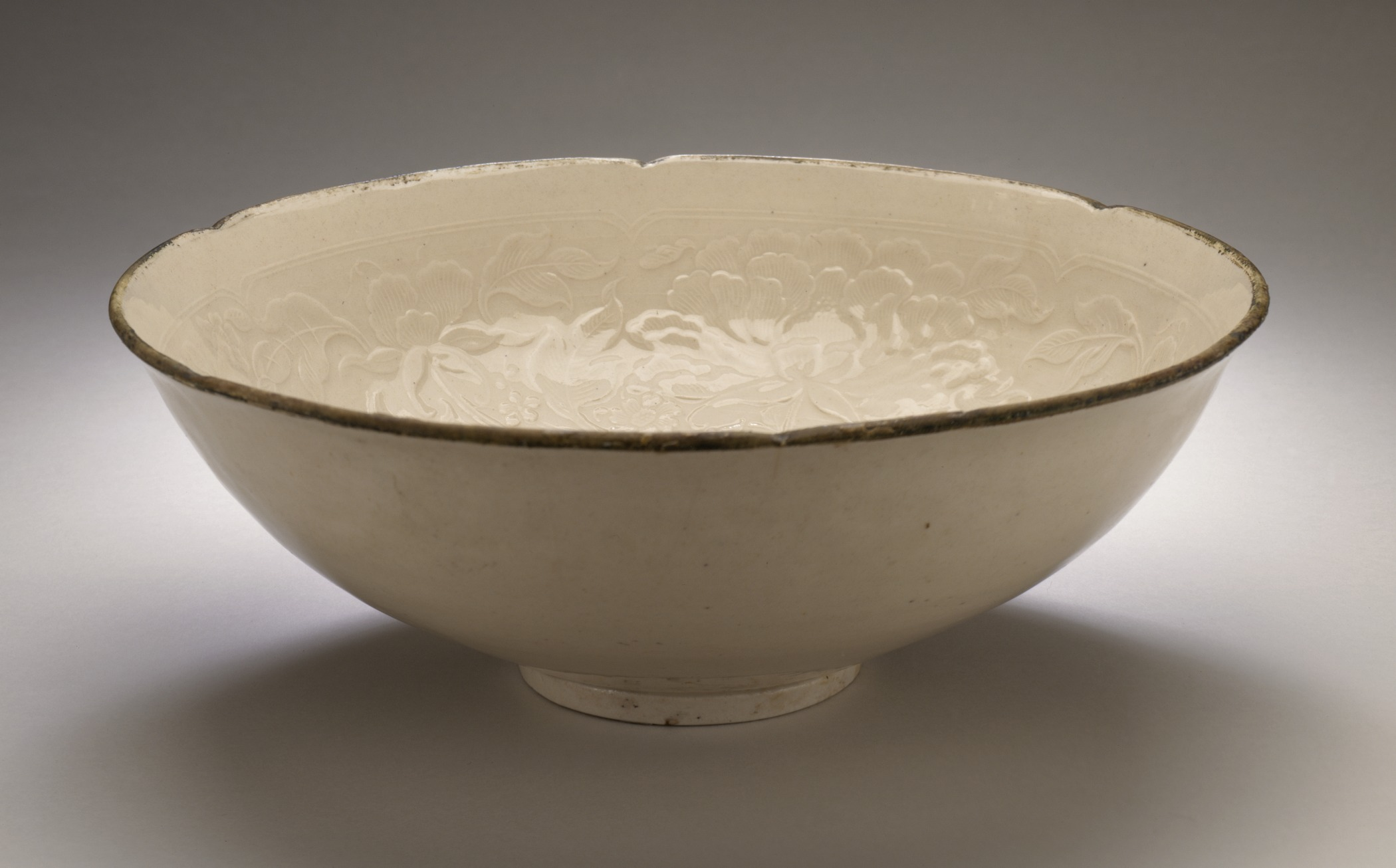 China, Hebei Province, Quyang County, Jin dynasty, about 1100-1200 Furnishings; Serviceware Ding ware, wheel-thrown stoneware with impressed decoration, transparent glaze, and banded metal rim Height: 3 1/4 in. (8.26 cm); Diameter: 9 5/8 in. (24.45 cm) Gift of Nasli M. Heeramaneck (M.73.48.101) Chinese Art